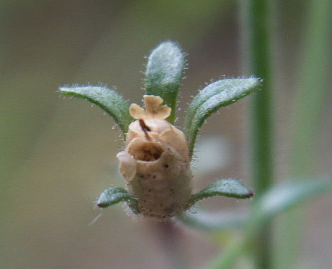 Fruit of Chaenorhinum minor. Goleniow, NW Poland.